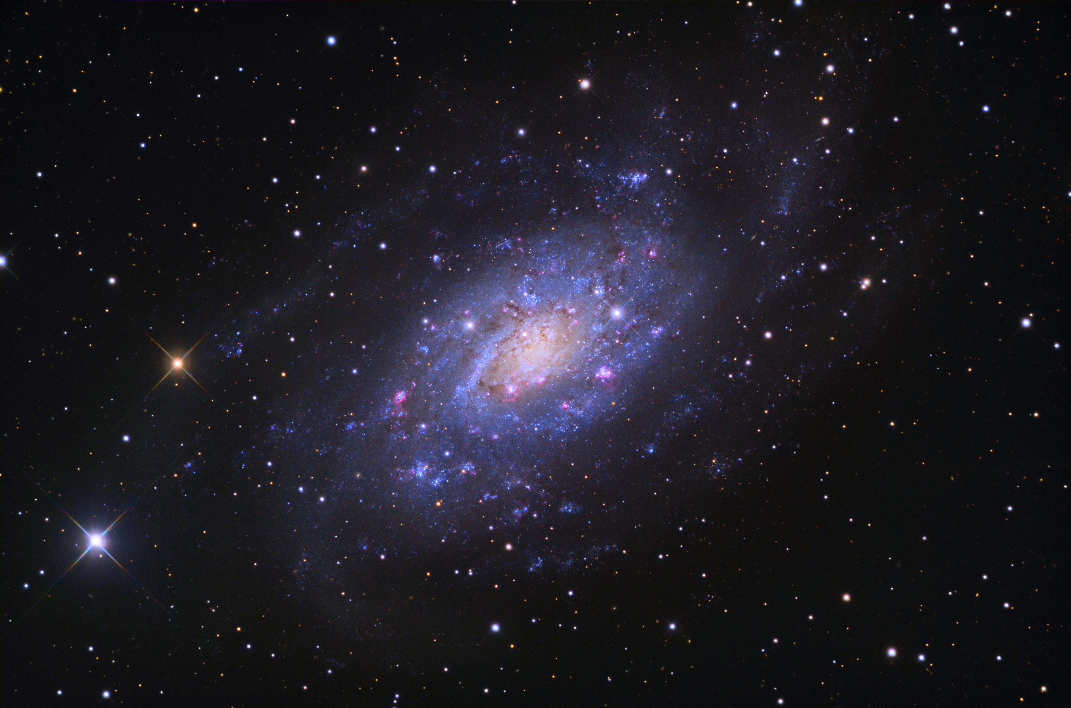 Deep exposures of Galaxies using the 0.8m Schulman Telescope at the Mount Lemmon SkyCenter Credit Line & Copyright Adam Block/Mount Lemmon SkyCenter/University of Arizona